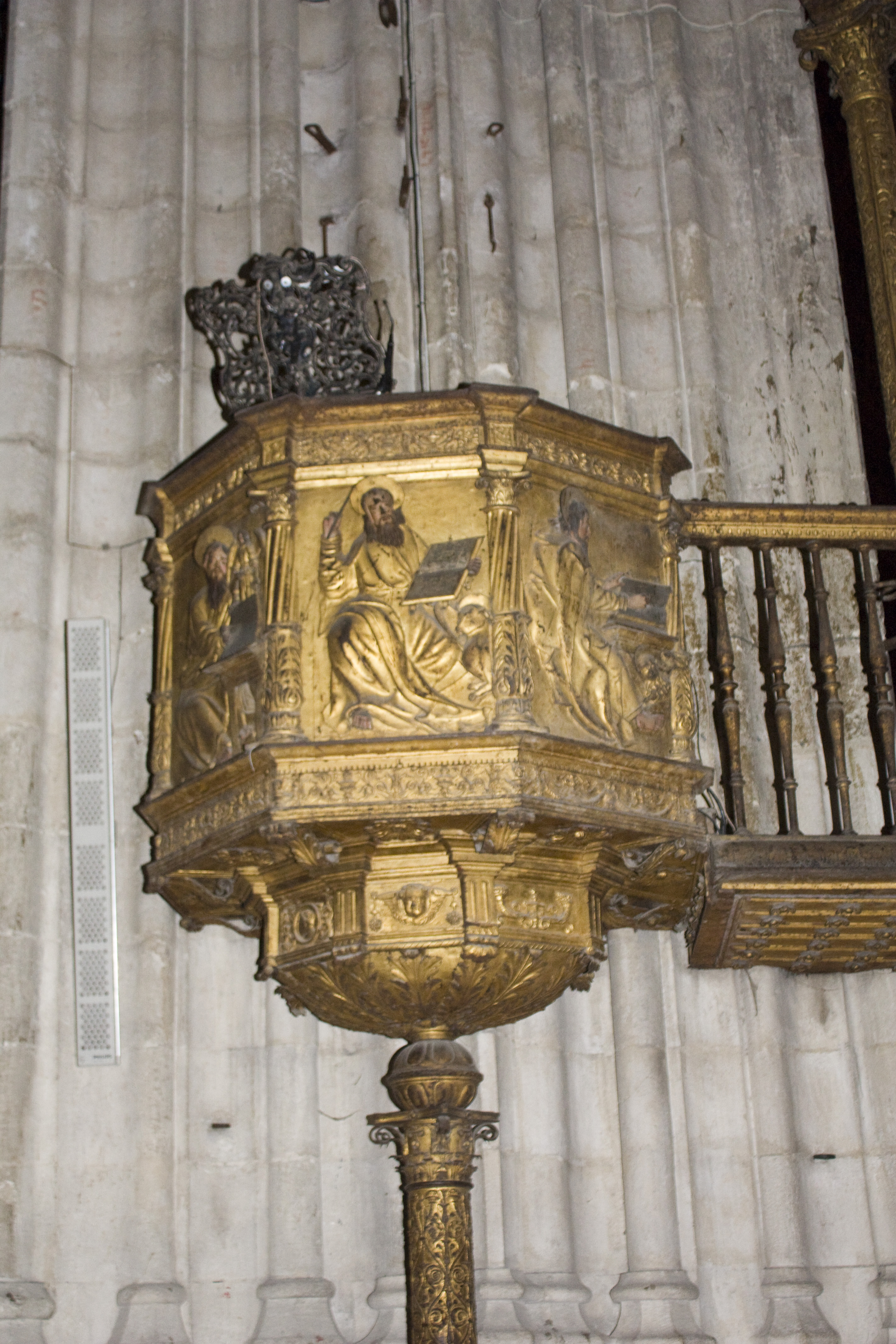 Pulpit of carved gilded wood.